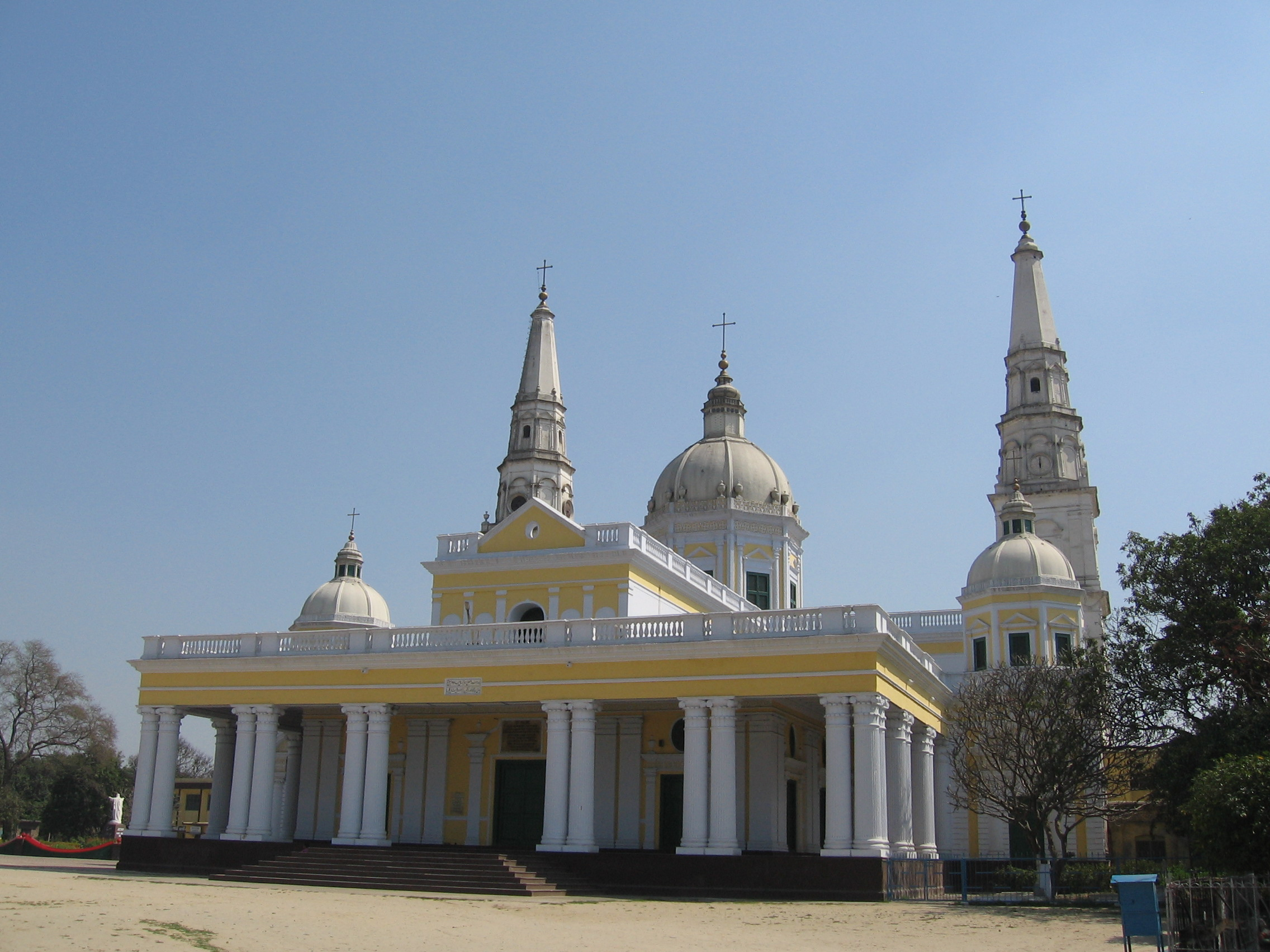 The basilica of our Lady of Graces, built in the early XIXth century in Sardhana, U.P. (India)